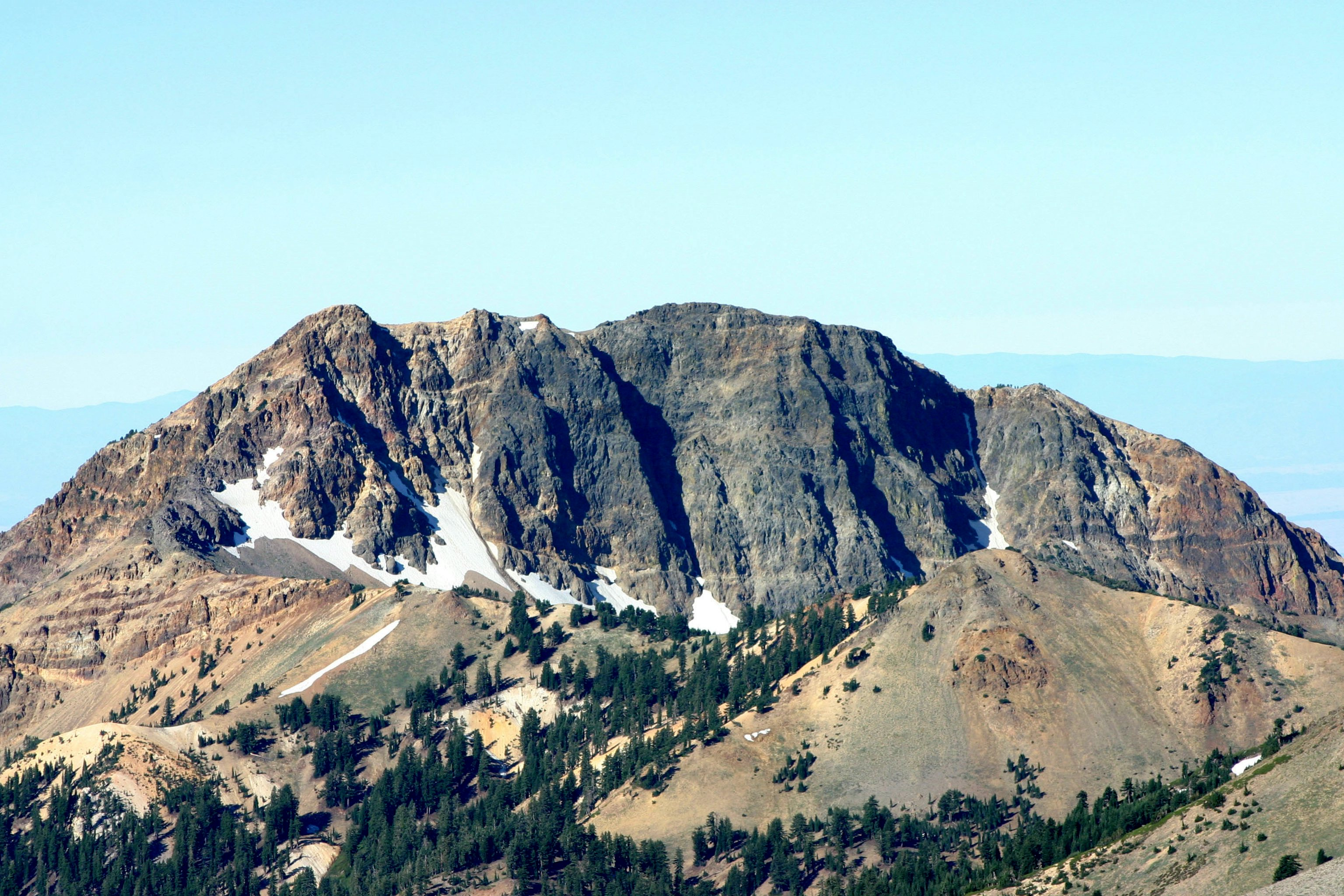 Brokeoff mountain, LVNP